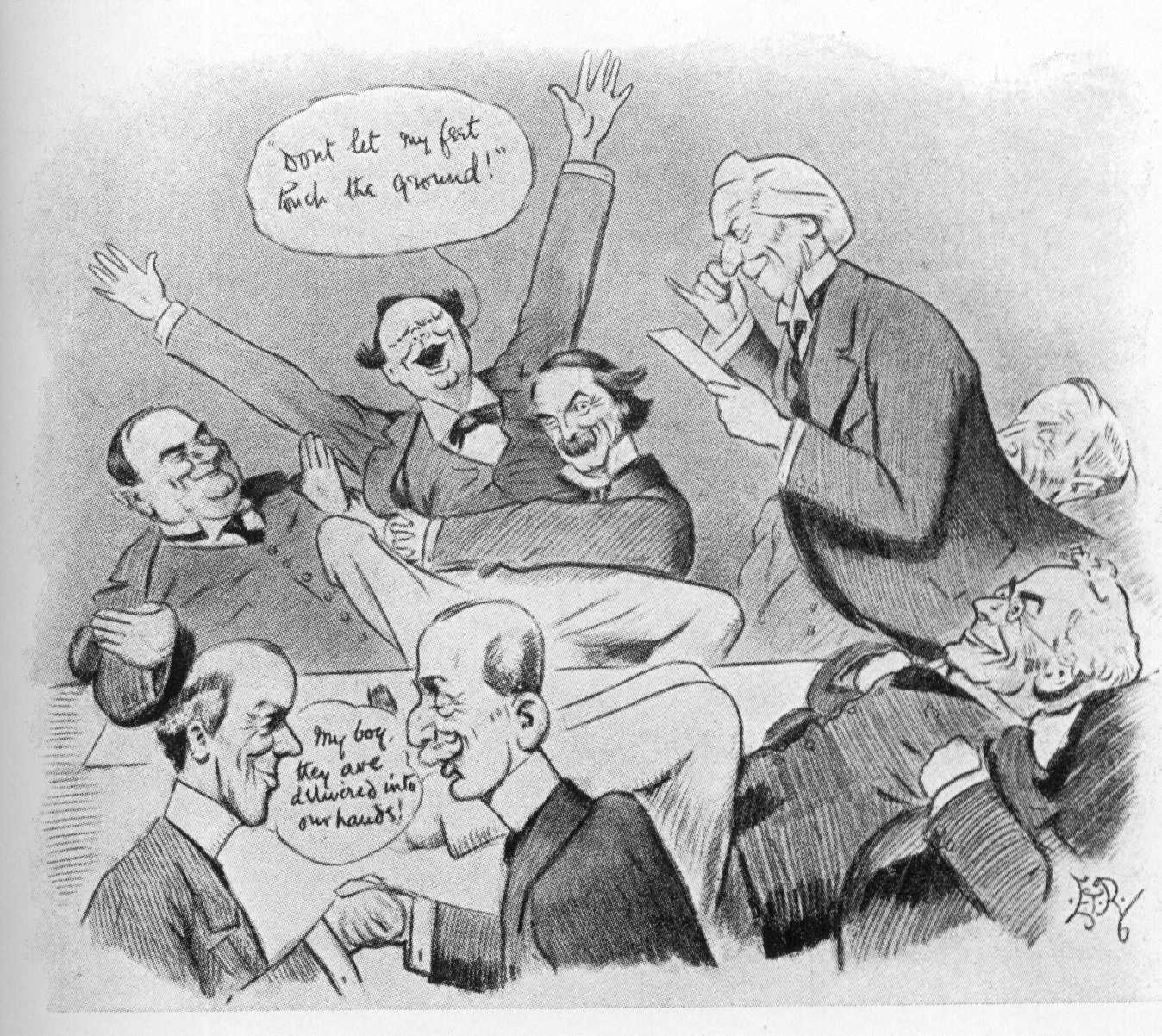 This satirical cartoon depicts a meeting of the Cabinet of British Prime Minister H.H. Asquith as envisaged by the artists. The picture shows the following persons: Back row (left to right) Richard Haldane, Winston Churchill (text balloon reads "Don't let my feet touch the ground!"), David Lloyd George, H.H. Asquith, John Morley. Front Row: Reginald McKenna, Crewe (text balloon reads "My boy, they are delivered into our hands!") and Augustine Birrell. Caption reads: "Awful Scene of Gloom and Dejection, When the Ministry Heard of the Lords' Decision to Refer the Budget to the Country" (ironically quoting - and poking fun at - a claim by the Conservatives during the argument for the budget of 1909 saying the very same)